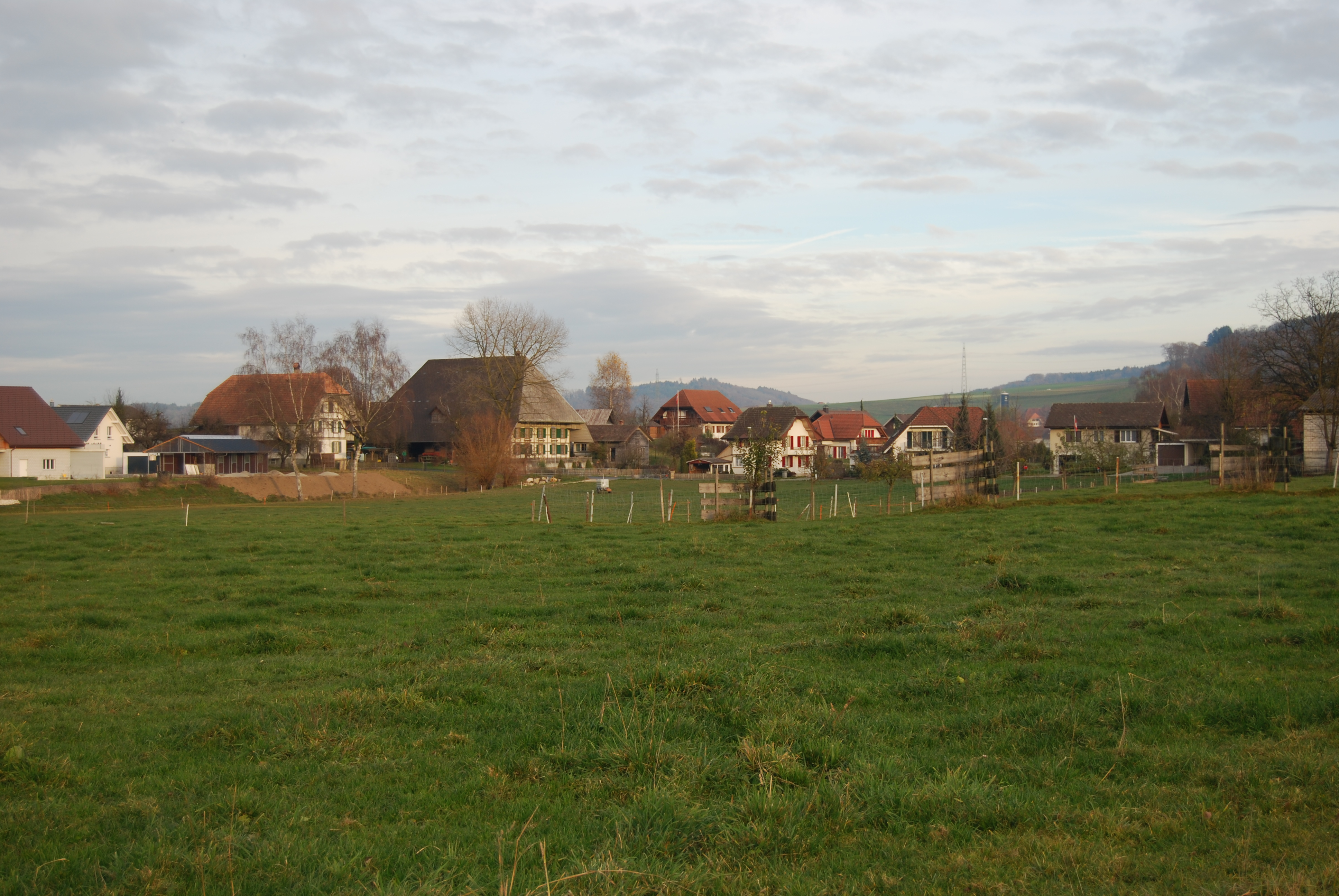 Höchstetten, canton of Bern, SwitzerlandEsperanto: Höchstetten, Kantono Berno, Svislando